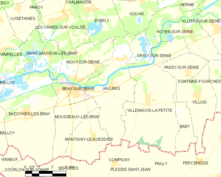 Map of French municipality Jaulnes